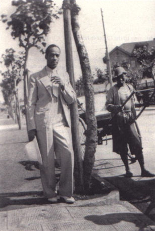 This image was published in the book "Yellow Music" by Andrew F. Jones (Duke University Press, 2001); it is likely the only up-close image of Buck Clayton while he was in Shanghai around 1934.